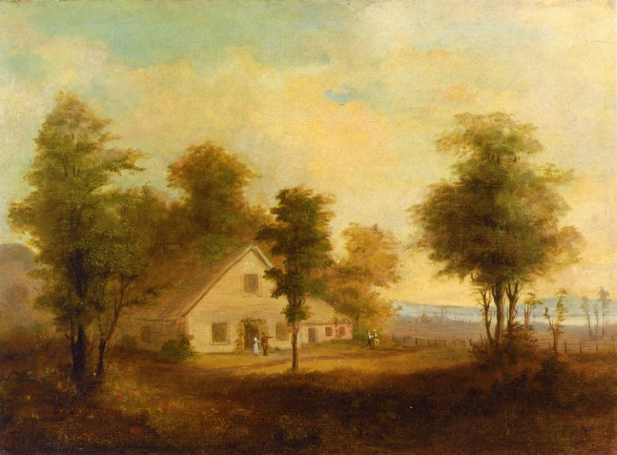 Summer